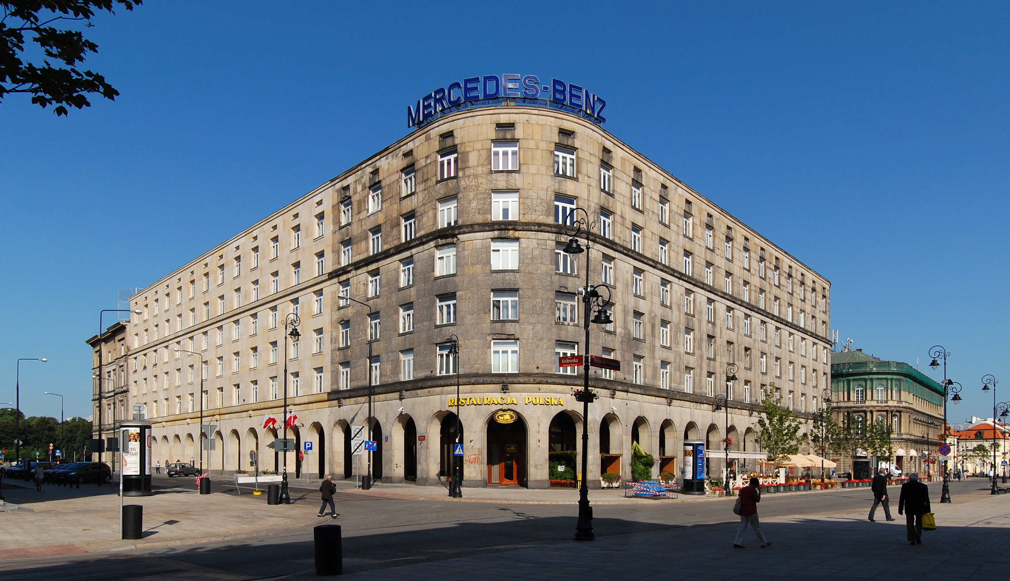 Early modernism building in Warsaw, Poland.